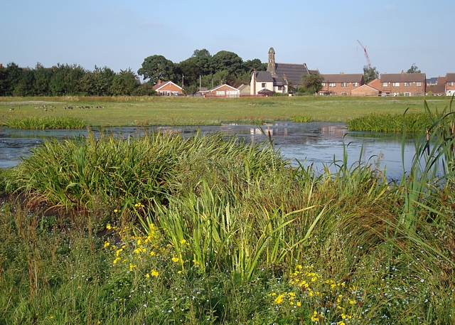 Waterside vegetation Buttercups, water mint and forget-me-nots growing in the wet soil at the edge of Allerton Ings. The church of St Mary the Less in the background. The crane is working on the 'Millennium Village' on the old Allerton Bywater colliery site.